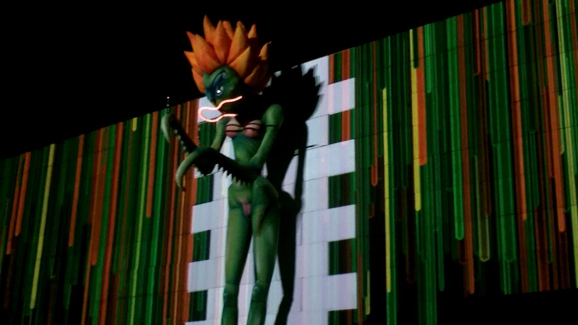 I took this photo from the 9th row, center stage, using a Kodak Playsport camera.